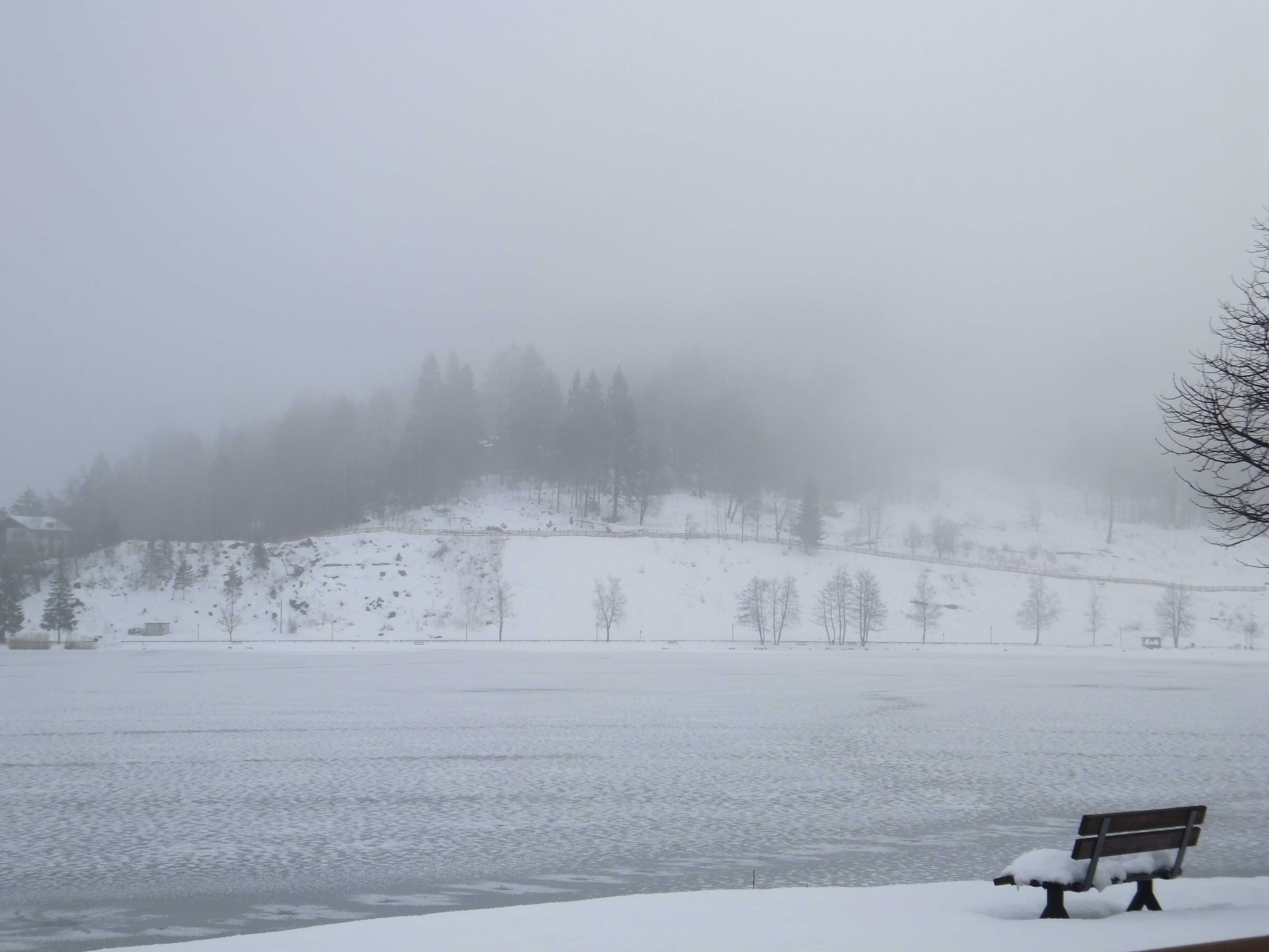 The lake of Serraia in winter